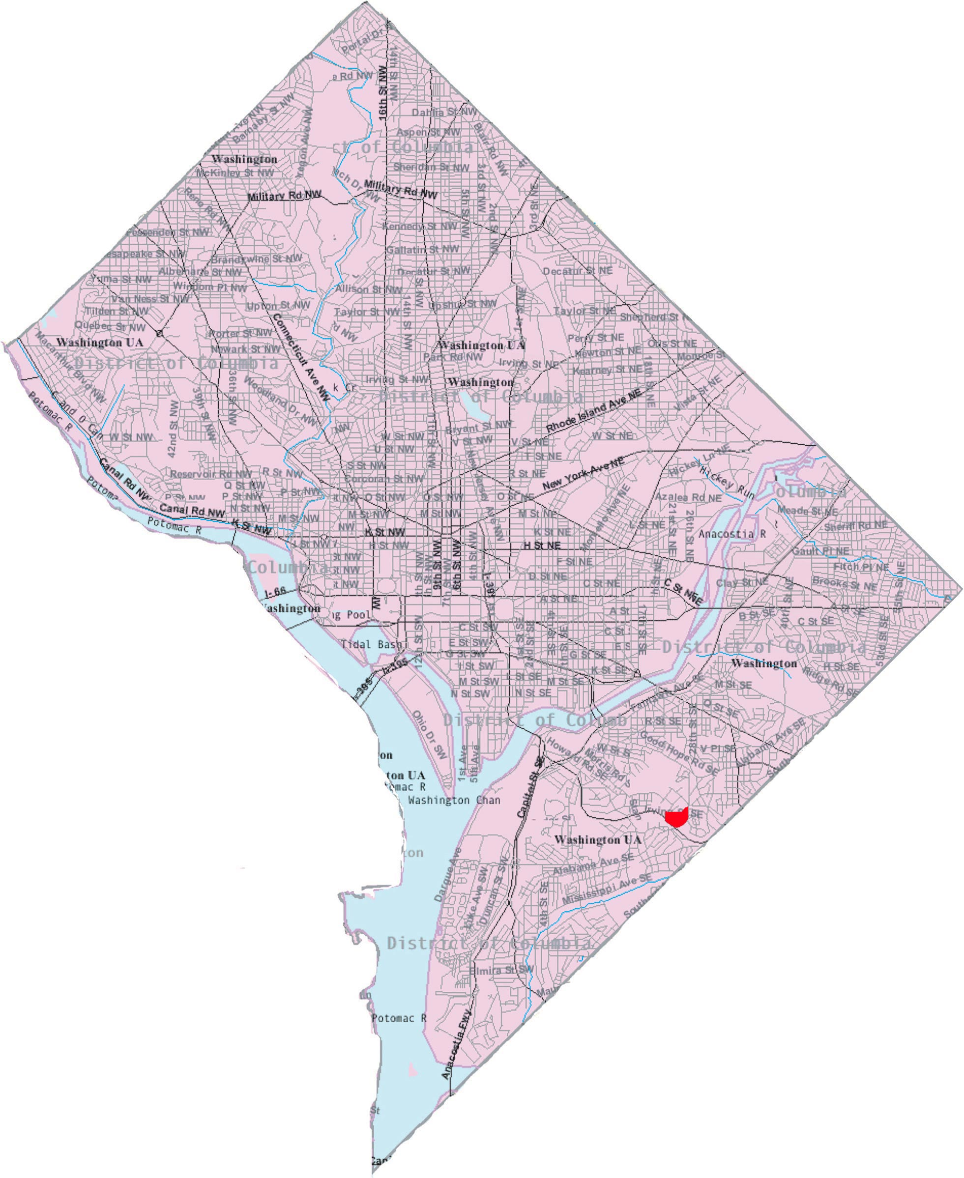 This image is a modified version of a self-generated reference map from the U.S. Census Bureau's American Factfinder at by Wikipedia user Msclguru.